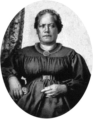 Laura Kōnia (c. 1808–1857) was a member of the Hawaiian royal family. She was grandaughter of King Kamehameha I, and mother of Bernice Pauahi Bishop, the founder of Kamehameha Schools. Probably taken during her last years of life when she was suffering from many illnesses and eventually died of influenza. This daguerreotype recently sold for $9,775.